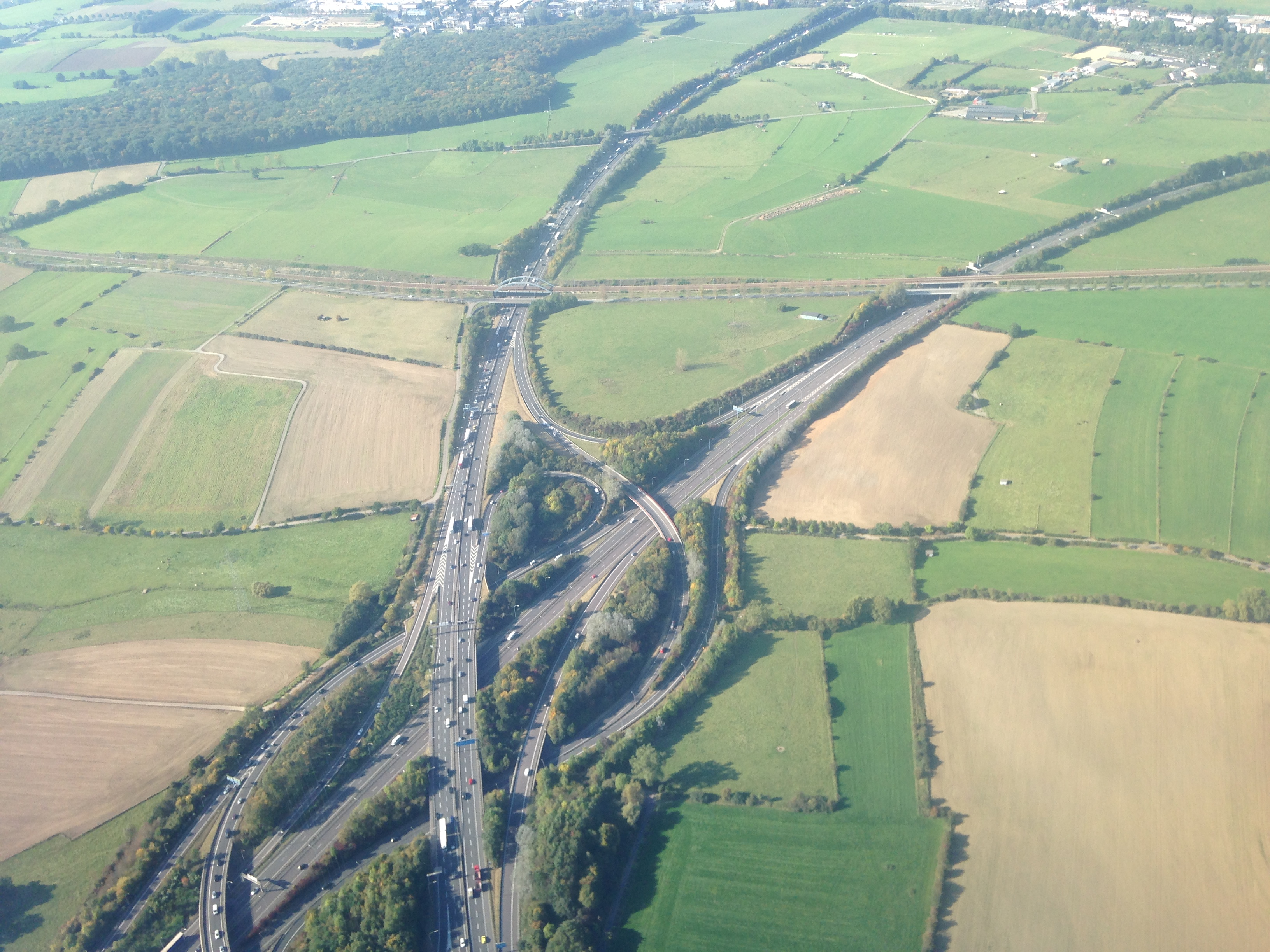 The Croix de Cessange (Luxembourgish: Zéissenger Kräiz